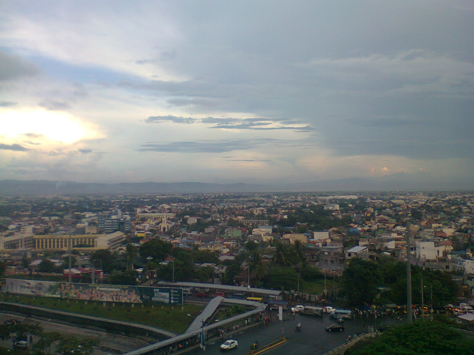 Pateros as viewed from SM Aura Skypark